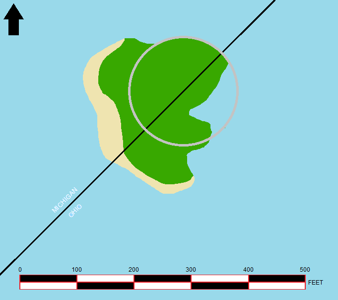 Map showing the estimated size of Turtle Island and the location of the MI-OH border running through it. Other information For geographic reference only.